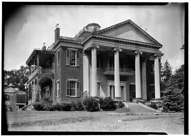 This is the front corner of Homewood Mansion, which was located just north of Natchez, Mississippi. It burned in 1940.